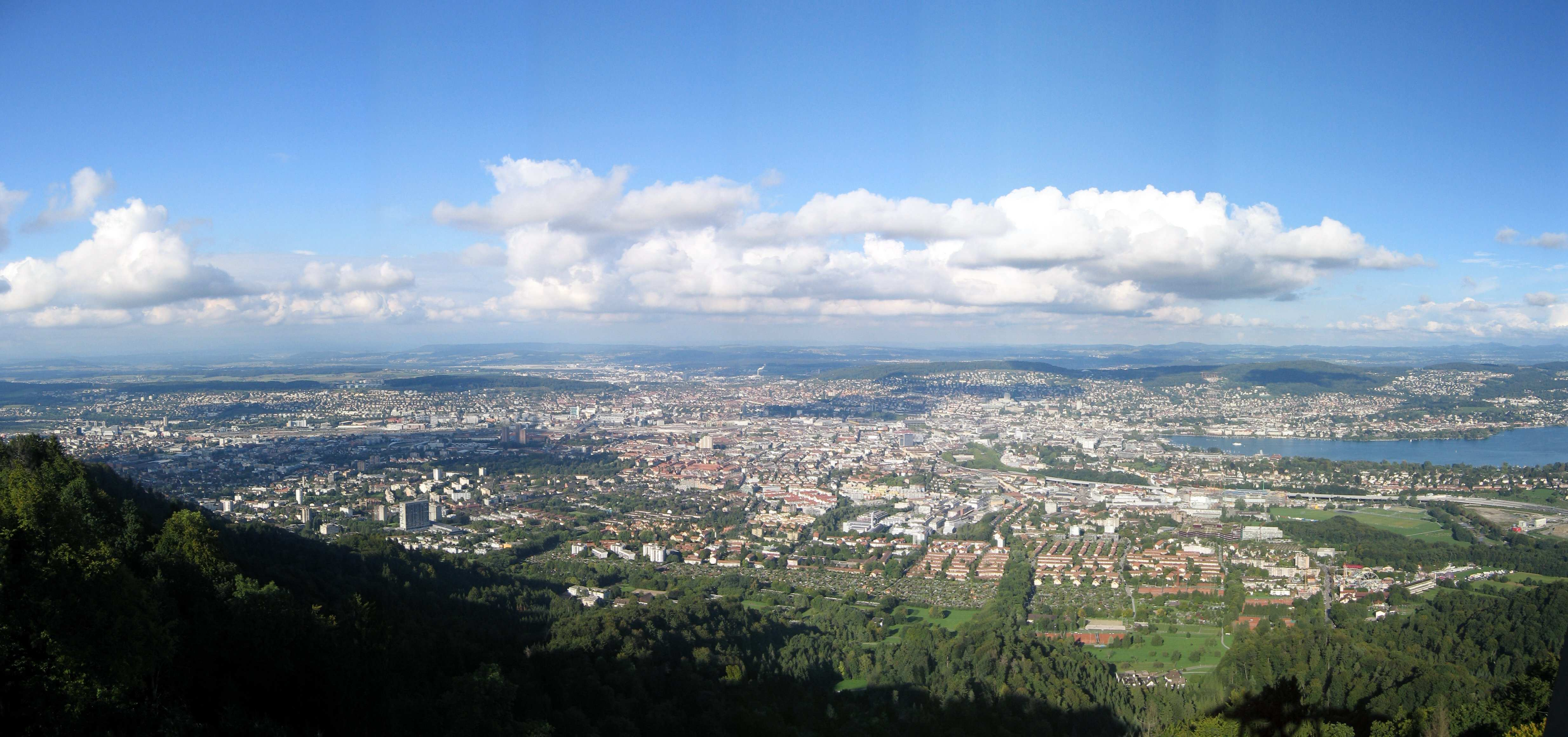 View of Zurich, Switzerland. Photo taken at Utliberg.